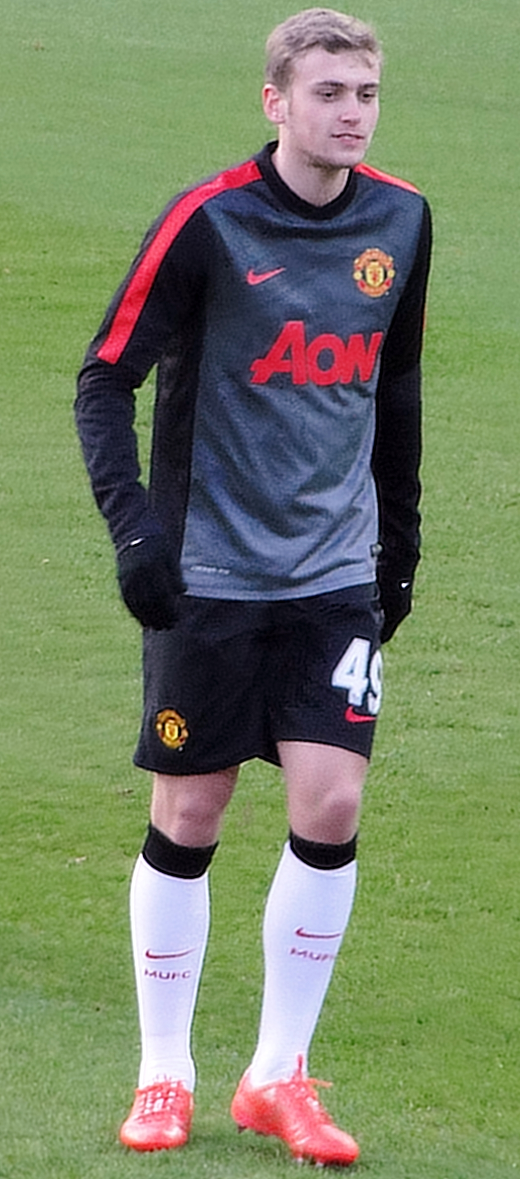 Manchester United footballer James Wilson warming up before their Premier League game against West Ham United at the Boleyn Ground.